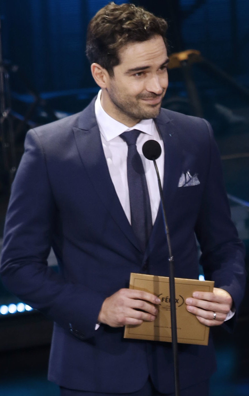 Alfonso Herrera in 2017